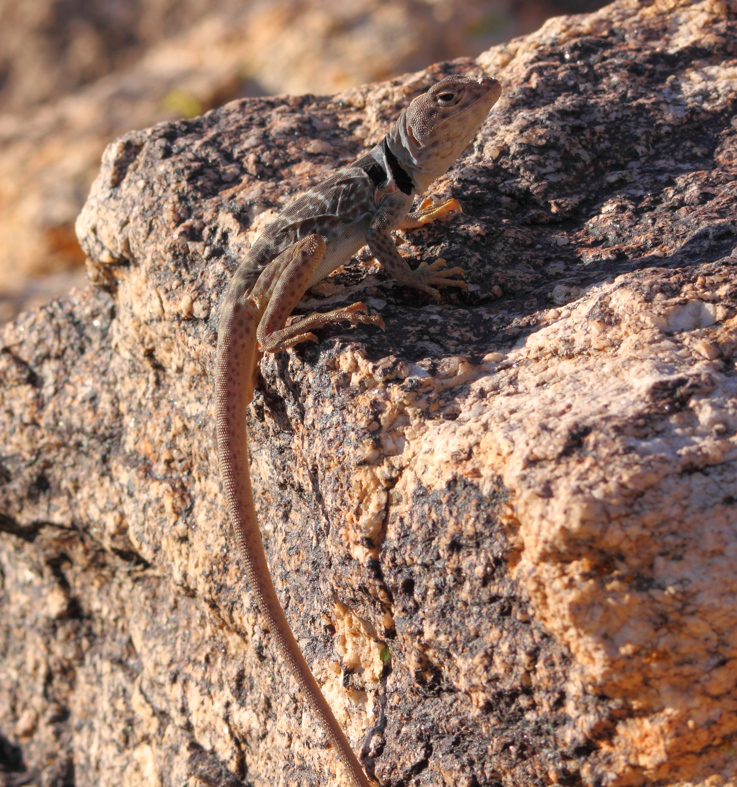 An desert collard lizard, along the Ford Canyon Trail, White Tank Mountains, Arizona Sept 2012